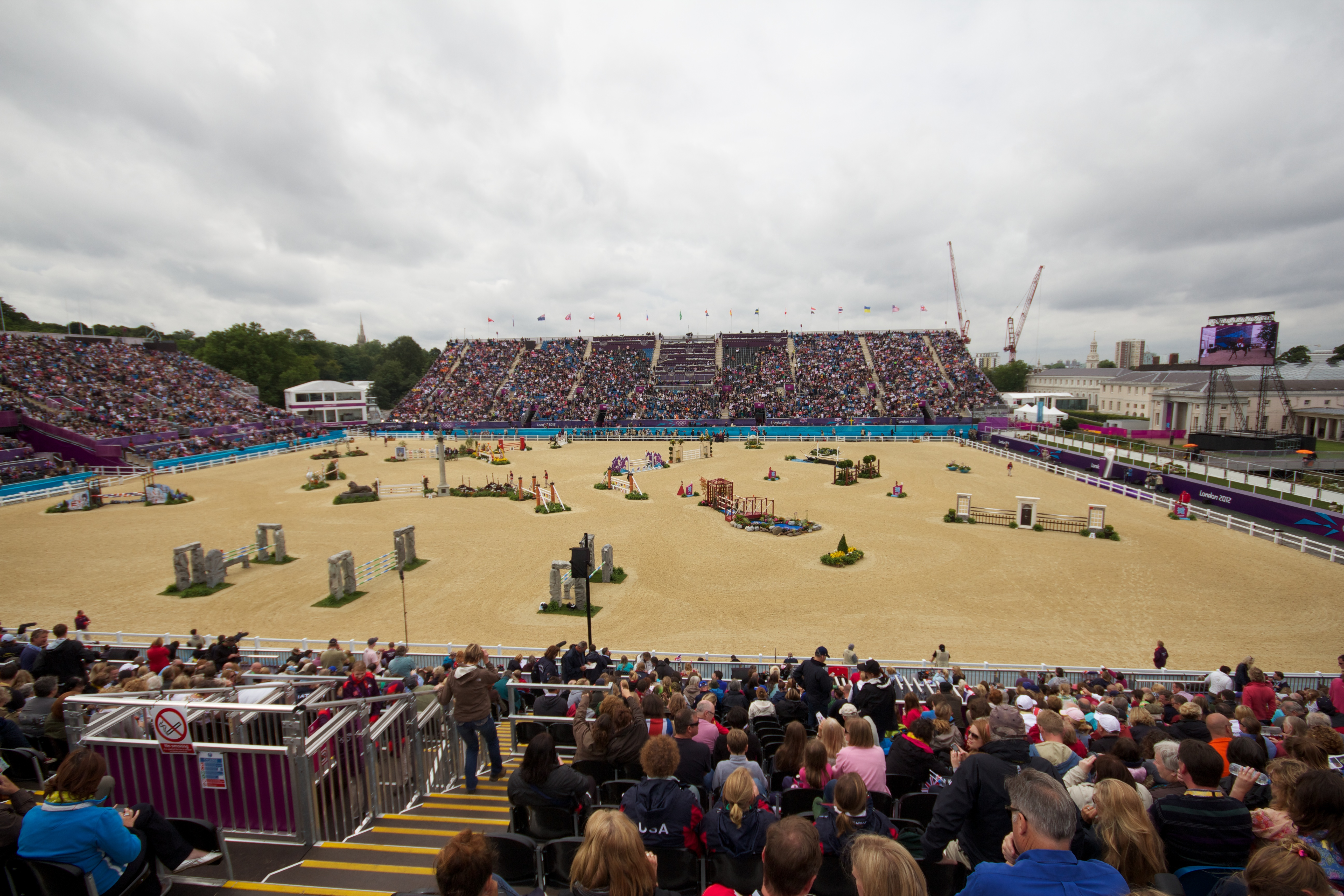 The Equestrian stadium at the Olympic Eventing showjumping phase, Greenwich Park